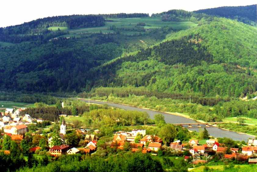 barcice